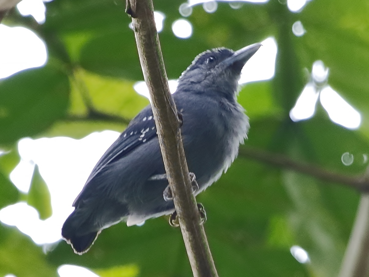 Spot-winged antshrike at Carajás National Forest - PA - Brasil